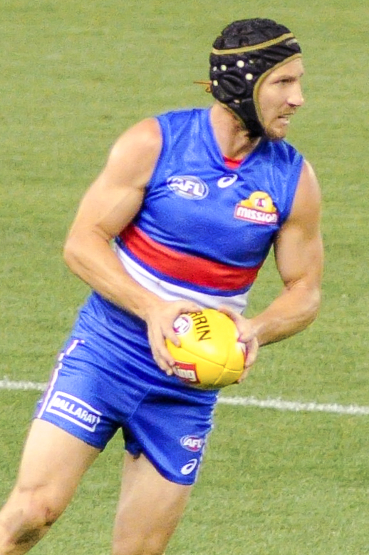 Matthew Boyd during the AFL round two match between the Western Bulldogs and Sydney on 31 March 2017 at the Etihad Stadium in Melbourne, Victoria.